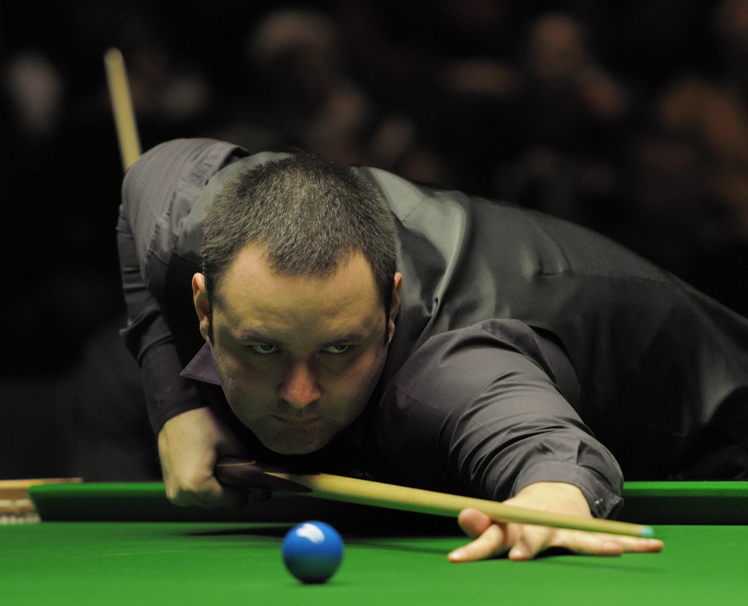 Picture taken in Berlin during the Snooker German Masters in 2011. Stephen Maguire.